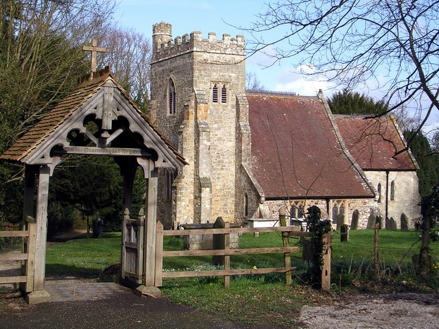 St Giles Church, Bodiam This pretty church is right beside the main road into the village from Sandurst, but is concealed from first glance due to the road being in a steep cutting. It overlooks the famous Bodiam Castle.